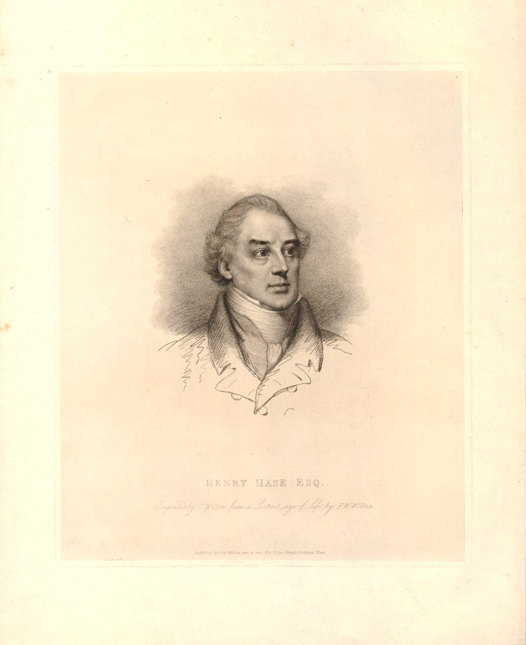 Henry Hase(1763-1829), Chief cashier of the Bank of England, stipple, soft-ground etching, Print made by Charles Wilkin, Published by Charles Wilkin after Francis William Wilkin Published in London 1821, 'Engraved by C. Wilkin from a Portrait size of Life by F.W. Wilkin. / Published by Chas. Wilkin Jany. 19, 1821 No. 31 Foley Street, Portland Place.'.